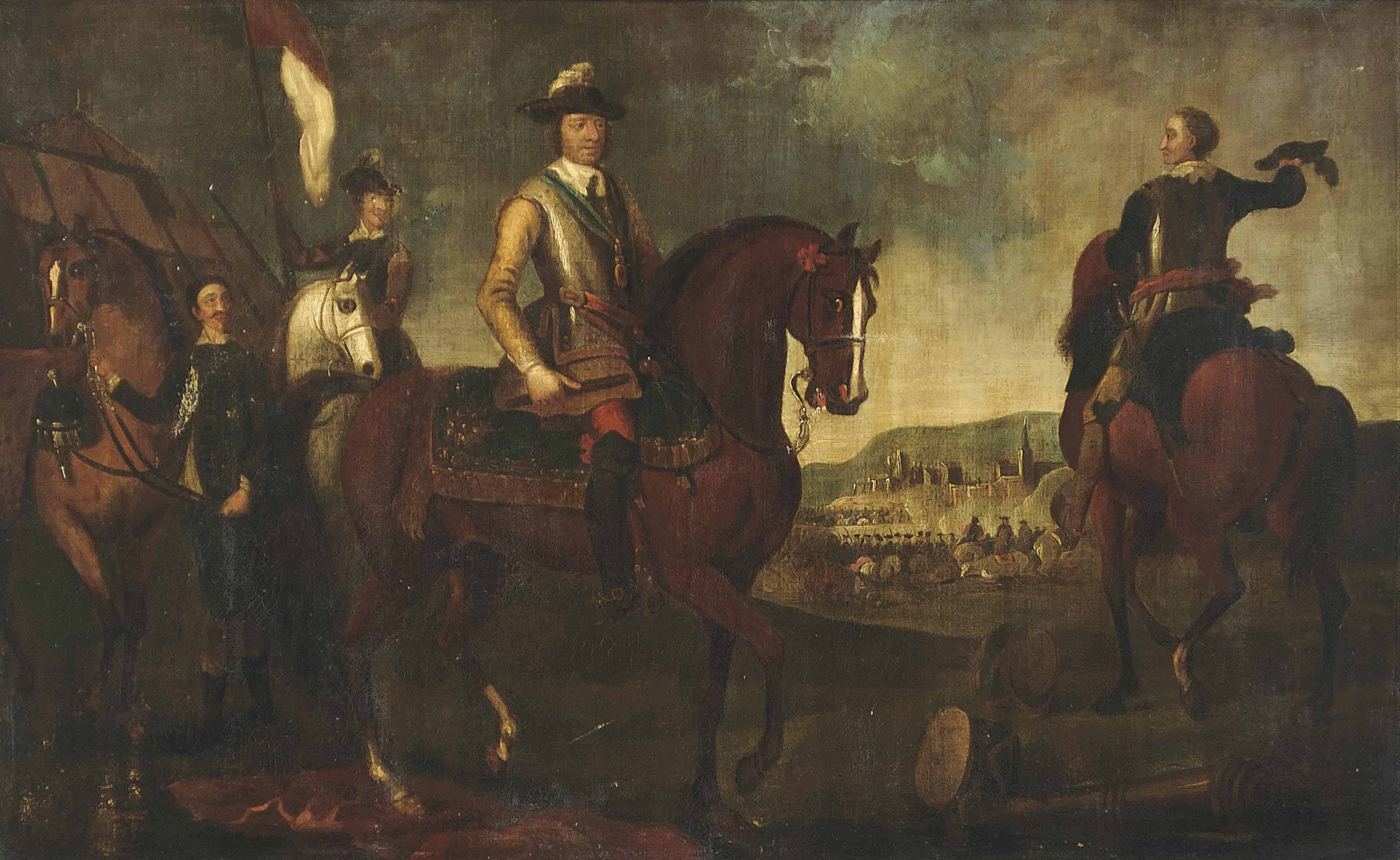 Painting of Oliver Cromwell and his officers at the Battle of Worcester (3 September 1651).